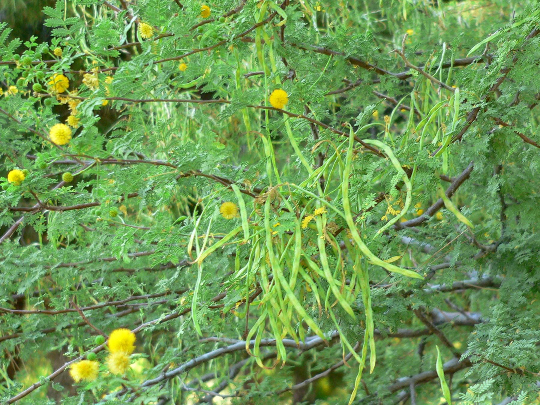 Photo of Acacia constricta flower at the Springs Preserve garden in Las Vegas